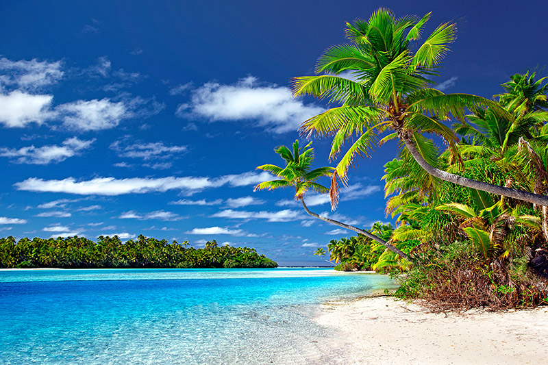 Tapuaetai - Aitutaki